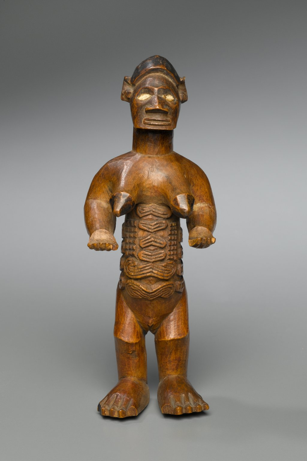 Figure, wood, female, hands with arms bent and palms upturned. Cap-like headdress, eyes inlaid. Breasts protrude, ends darkened, stomach intricately carved with scarification marks. CONDITION: Fair; left arm broken and repaired.